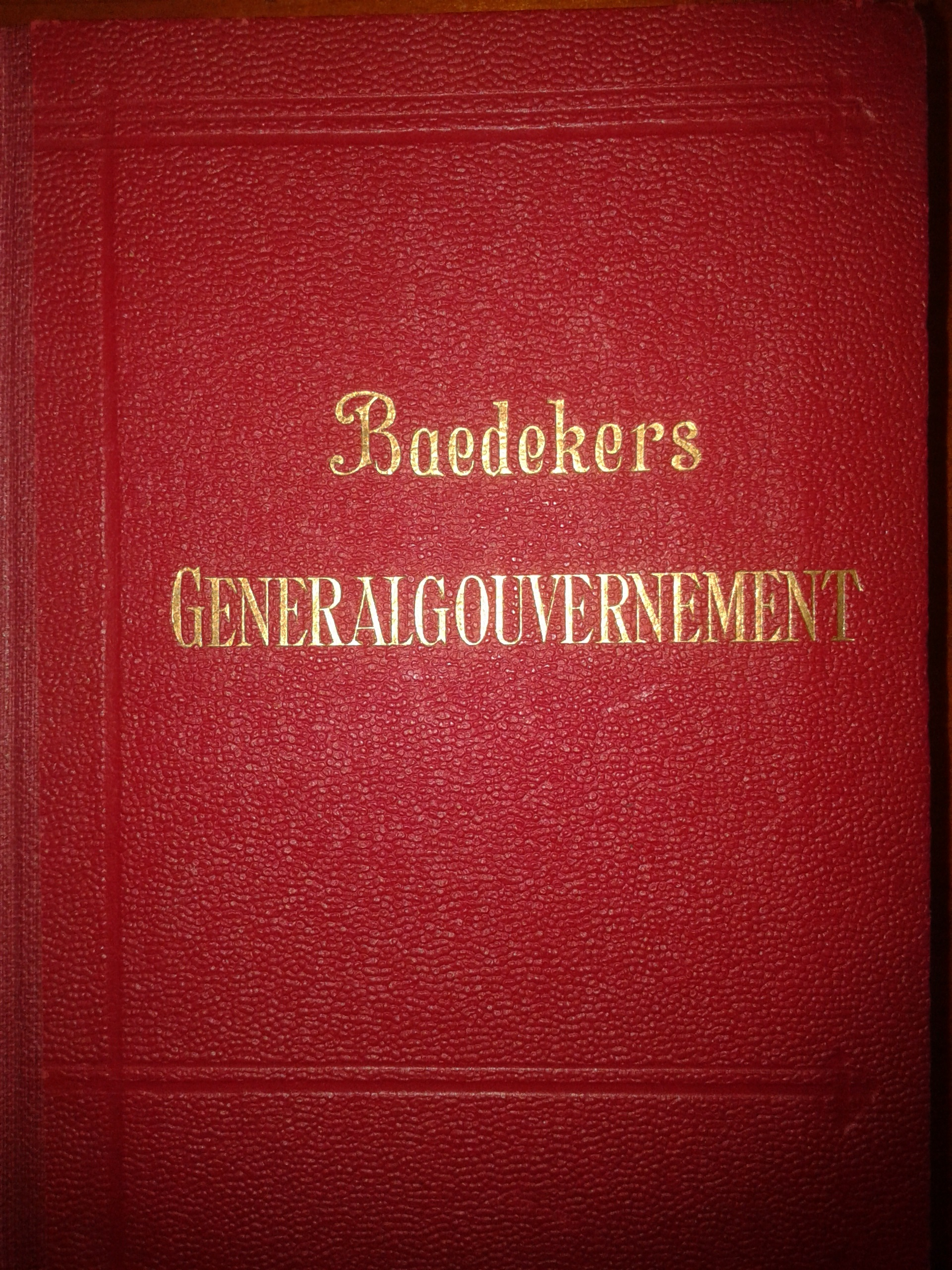 Frontcover of: Baedeker's Reisehandbuch: Das Generalgouvernement. Leipzig, Karl Baedeker 1943